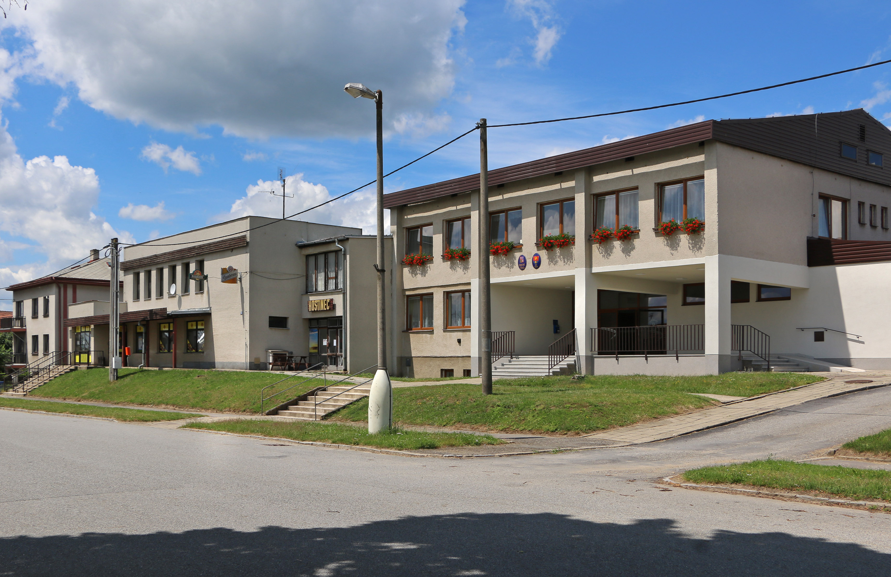 Small shop, restaurant and municipal office in Pavlov, Czech Republic.